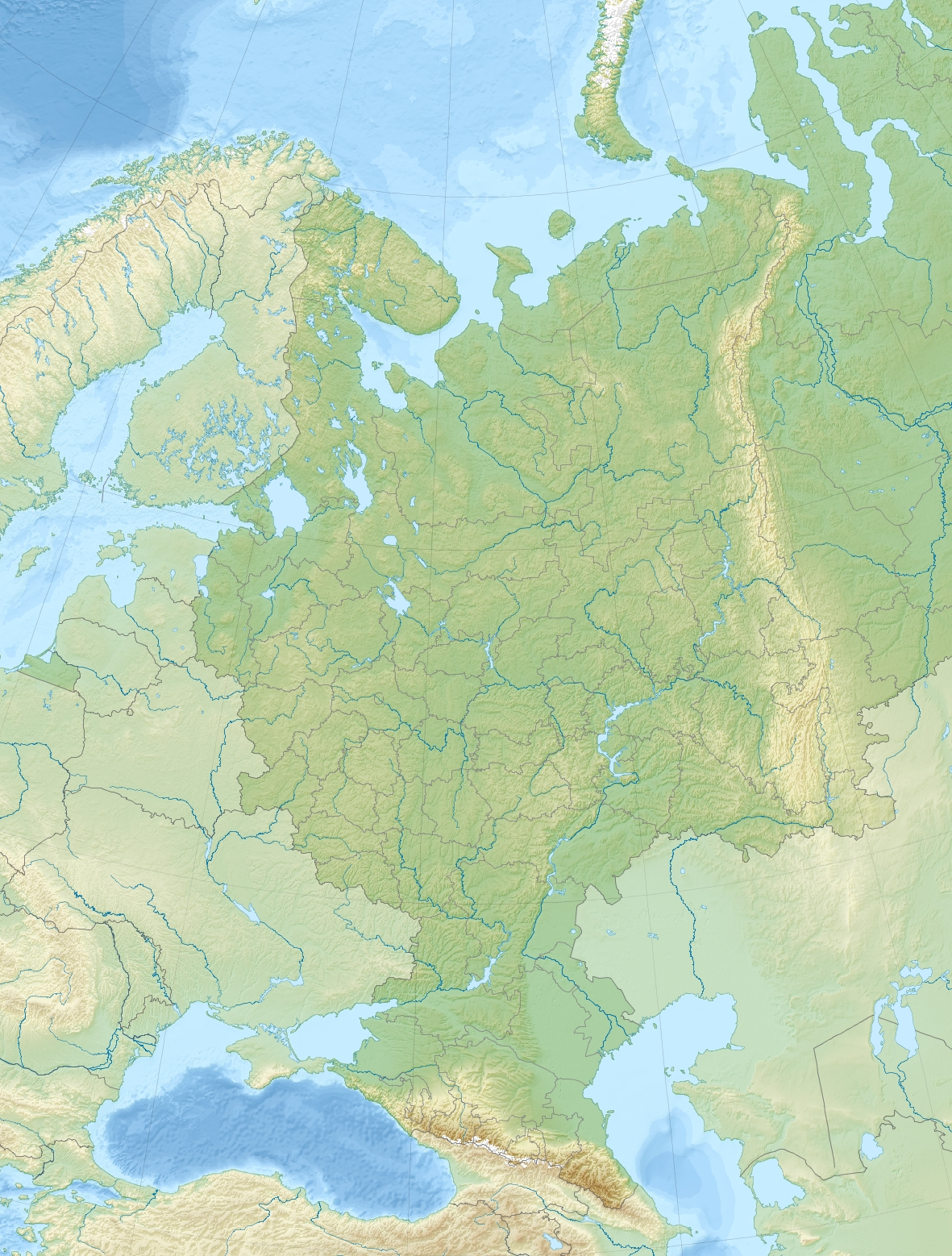 Relief location map of European_Russia. Projection: Lambert azimuthal equal-area projection. Area of interest: N: 75.0° N S: 40.0° N W: 25.0° E E: 60.0° E Projection center: NS: 57.5° N WE: 42.5° E GMT projection: -JA42.5/57.5/20c GMT region: -R25.450860698632475/38.37411418933942/86.79037939442836/70.79910933370674r GMT region for grdcut: -R-2.0/38.0/87.0/76.0r Relief: SRTM30plus. Made with Natural Earth. Free vector and raster map data @ .